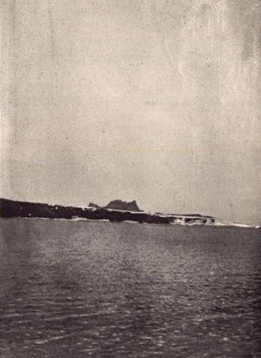 Foyn Island in the Possession Islands, Ross Sea, Antarctica